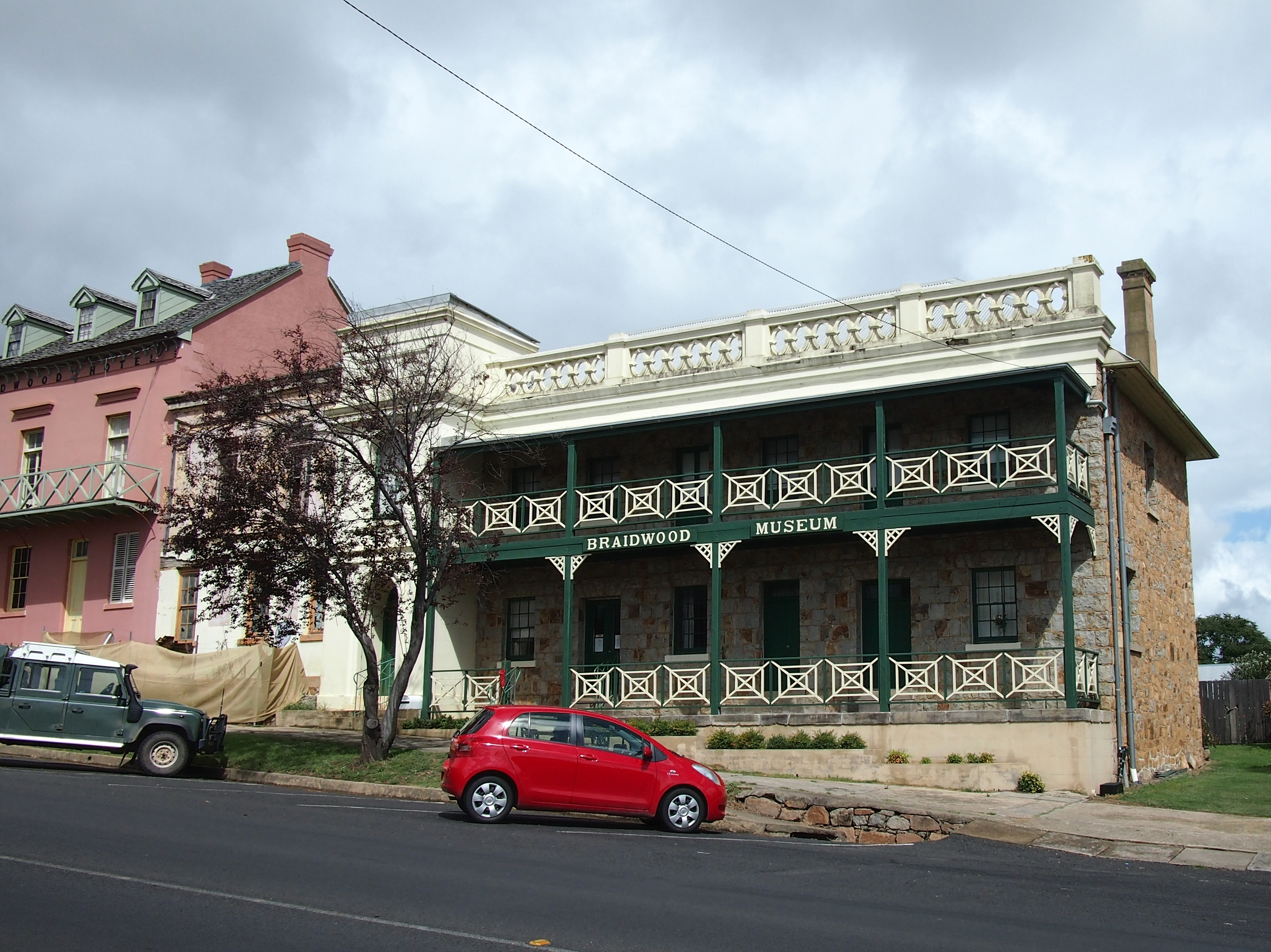 The Braidwood Museum in February 2013